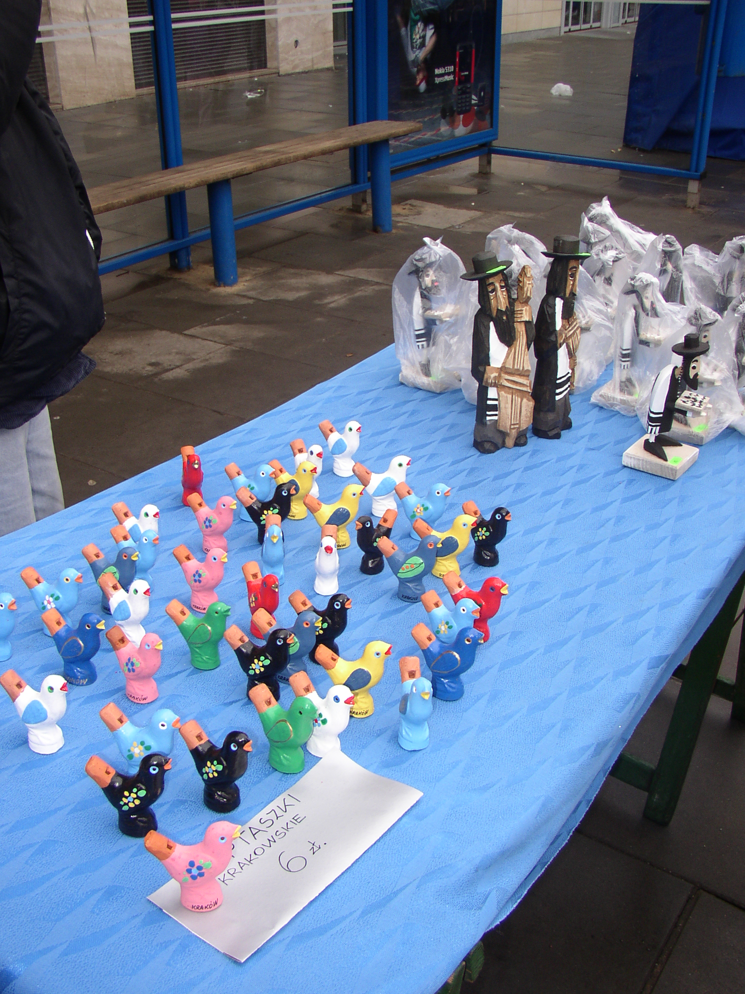 Kraków - Emaus 2008 - stand - traditional bird toys and Jew dolls